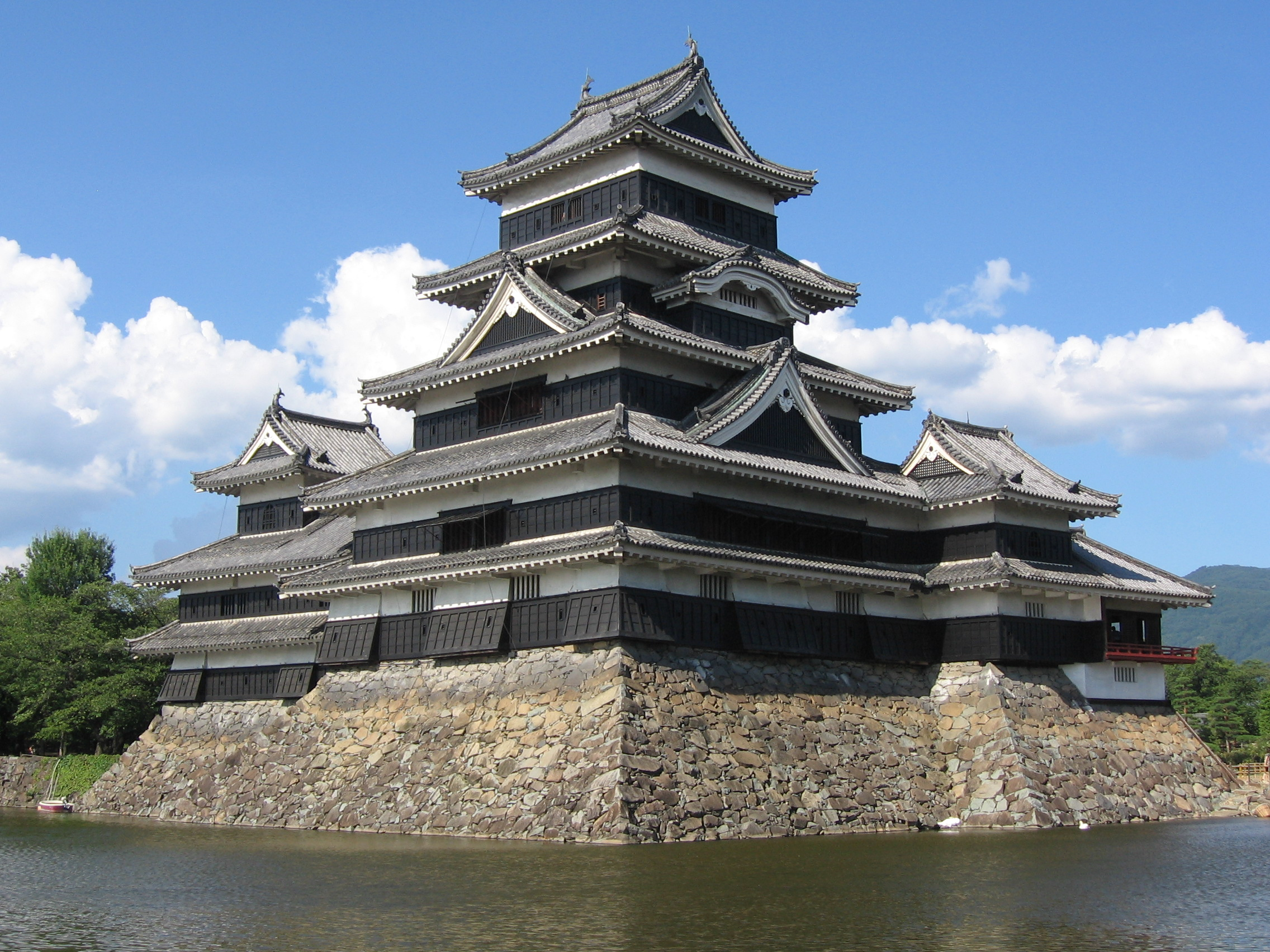 Matsumoto Castle